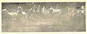 An old photo from 1906 by Karl Weule. Hut paintings